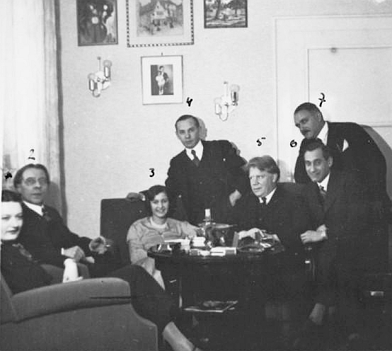 Alfred Cortot (1877-1962), Agi Jambor (1909-1997), Edwin Fischer (1886-1960).From left to right: (1) Mme Kun (2) Alfred Cortot (3) Agi Jambor (4) Agi Jambor's husband (5) Edwin Fischer (6) Mr Kun (7) Mr [Dr] Kun.